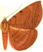 PLATE CCXI.